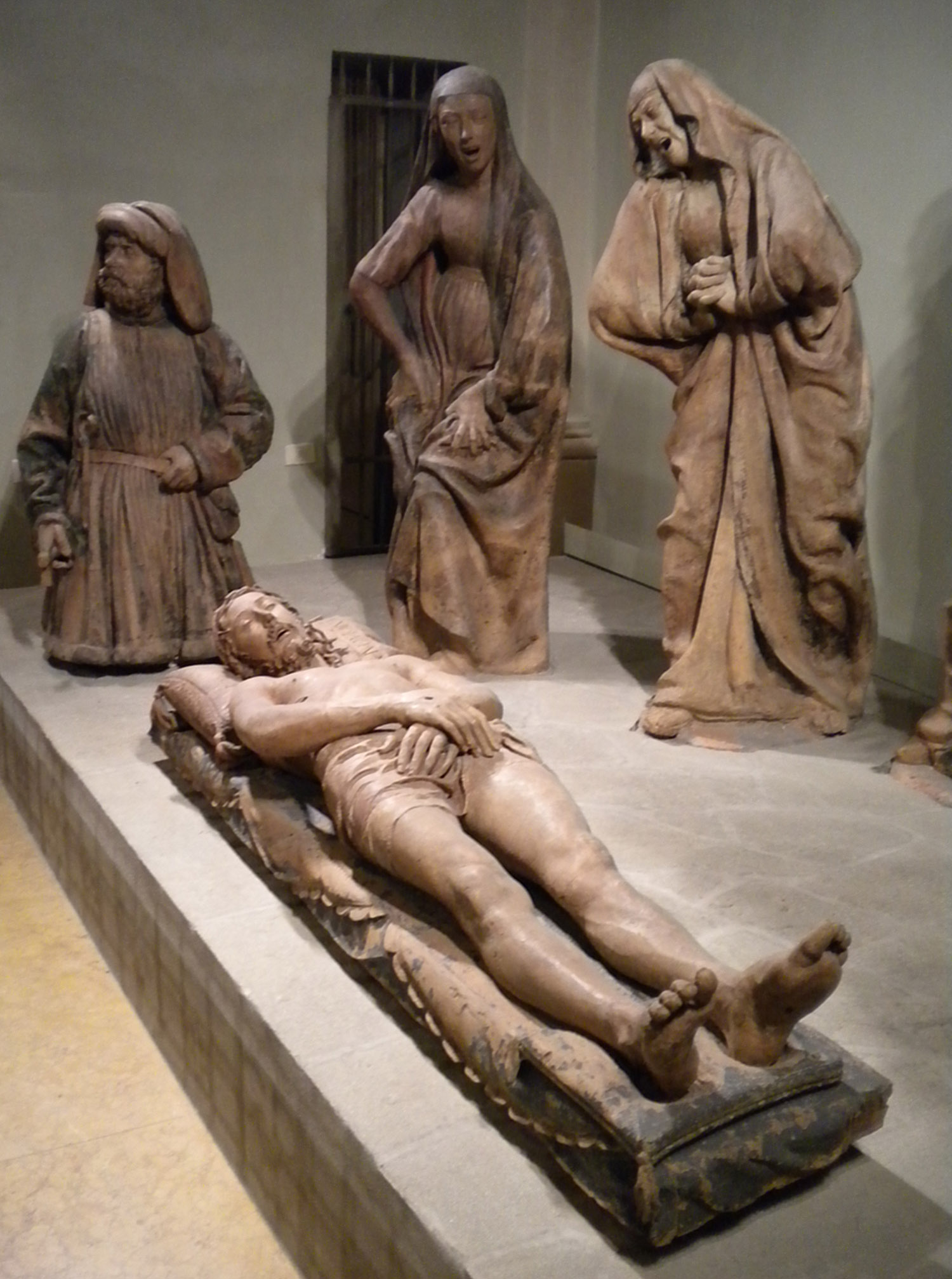 Lamentation on Christ dead, Niccolò dell'Arca, Bologna, Church of St. Maria della Vita